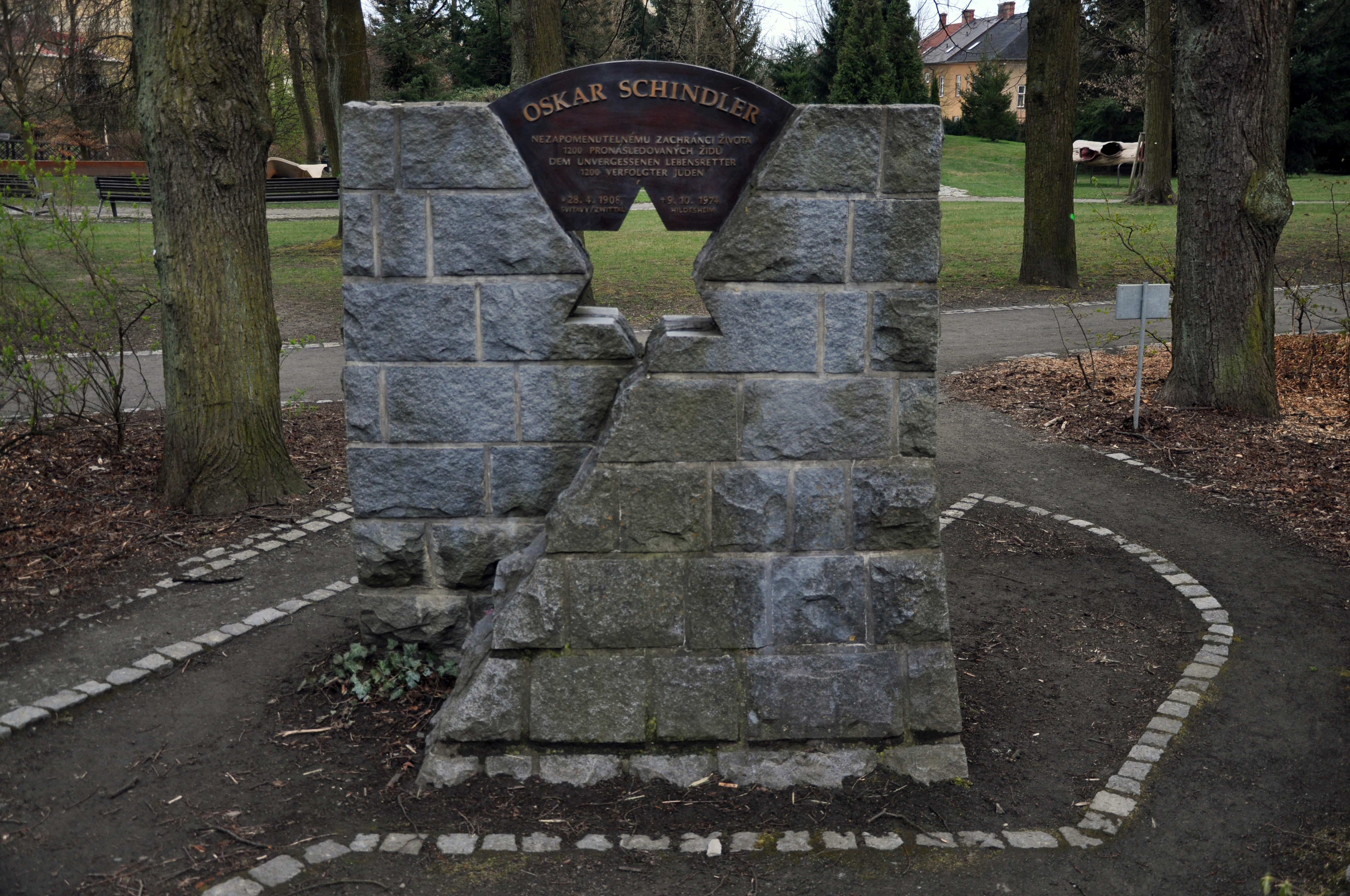 Memorial to Oskar Schindler in his hometown of Zwittau, Moravia (now Svitavy, Czech Republic)